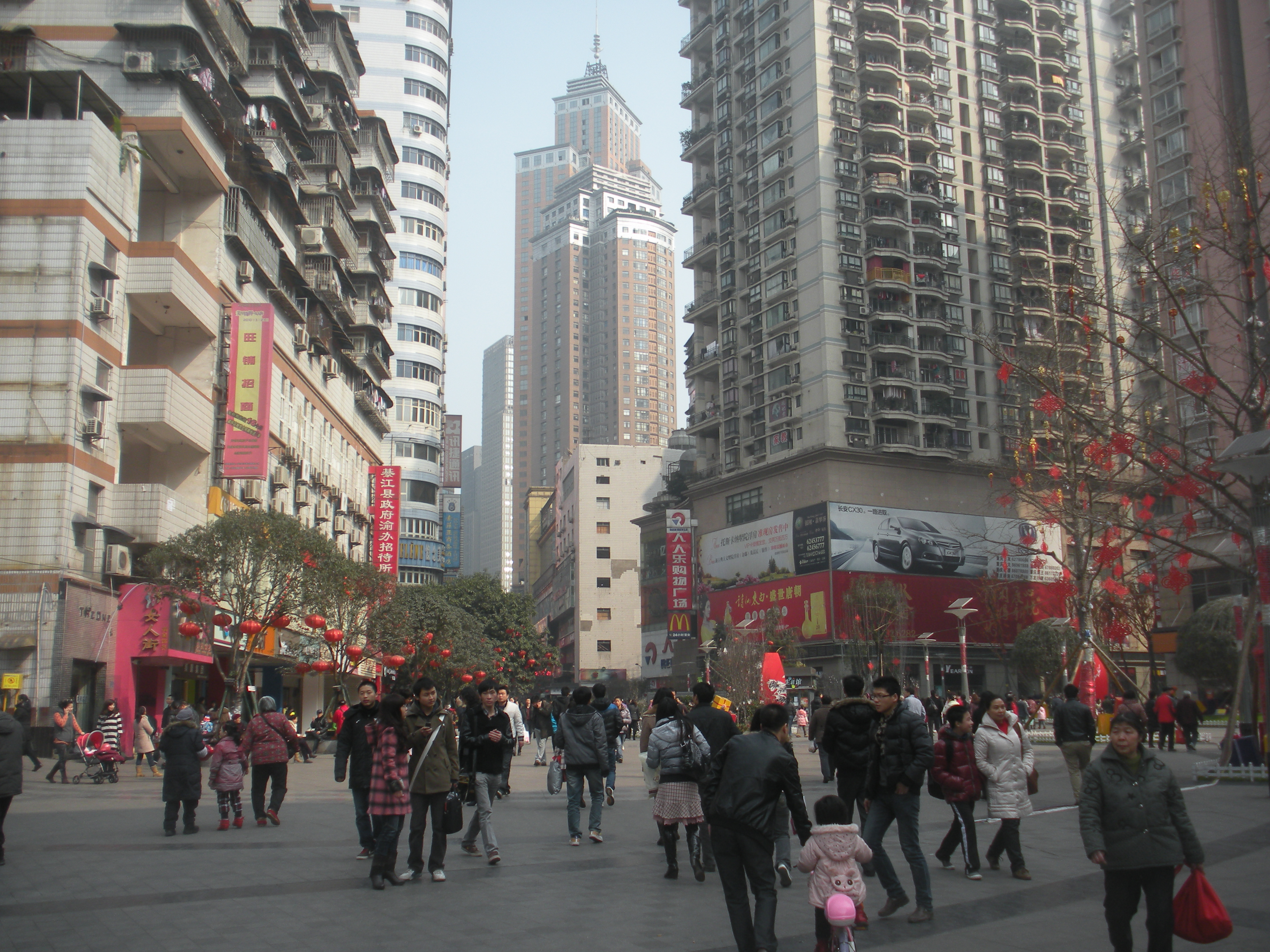 The pedestrian mall in Nanping District,Chongqing.The photo has been taken by Prof.Chen Hualin.